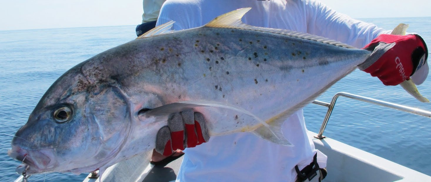 Taken from Shark Bay